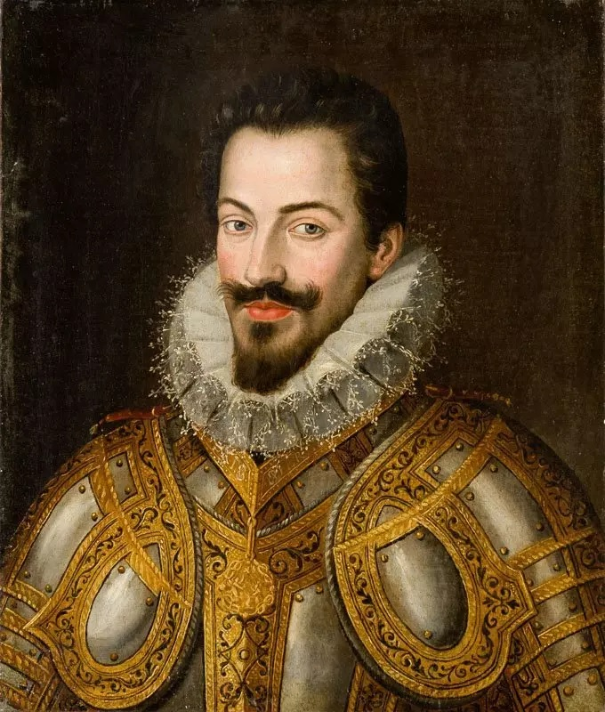 Charles Emmanuel I, Duke of Savoy (1562-1630)